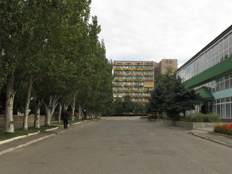 Streets of Lisichansk, Ukraine.